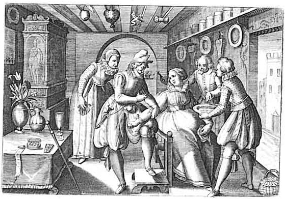 Detail from Image:23 674673M 001.jpg (which is from